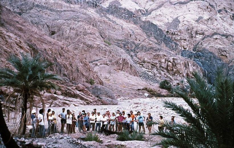 Wadi Piran - Sinai Peninsula